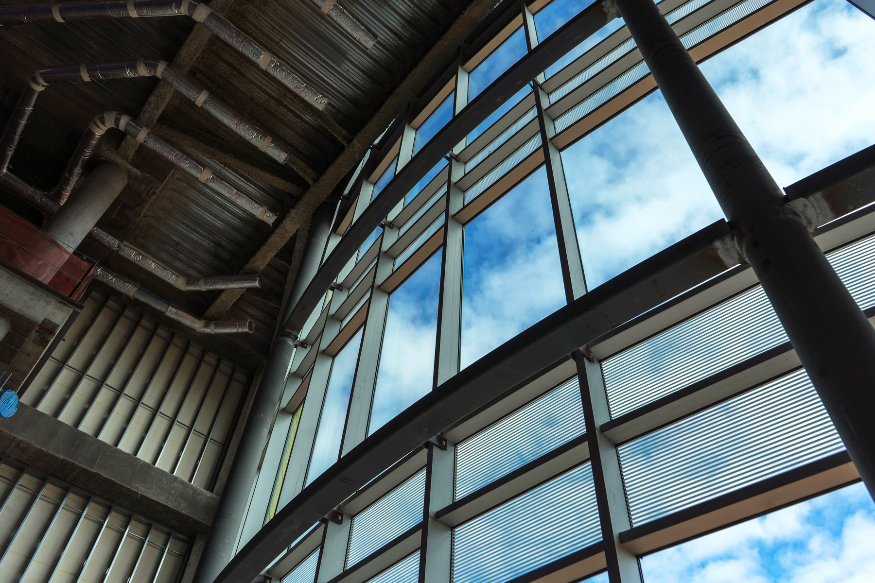 Inside look of the new Robert and Carol Gunn Health Sciences and Human Services building glass wall.